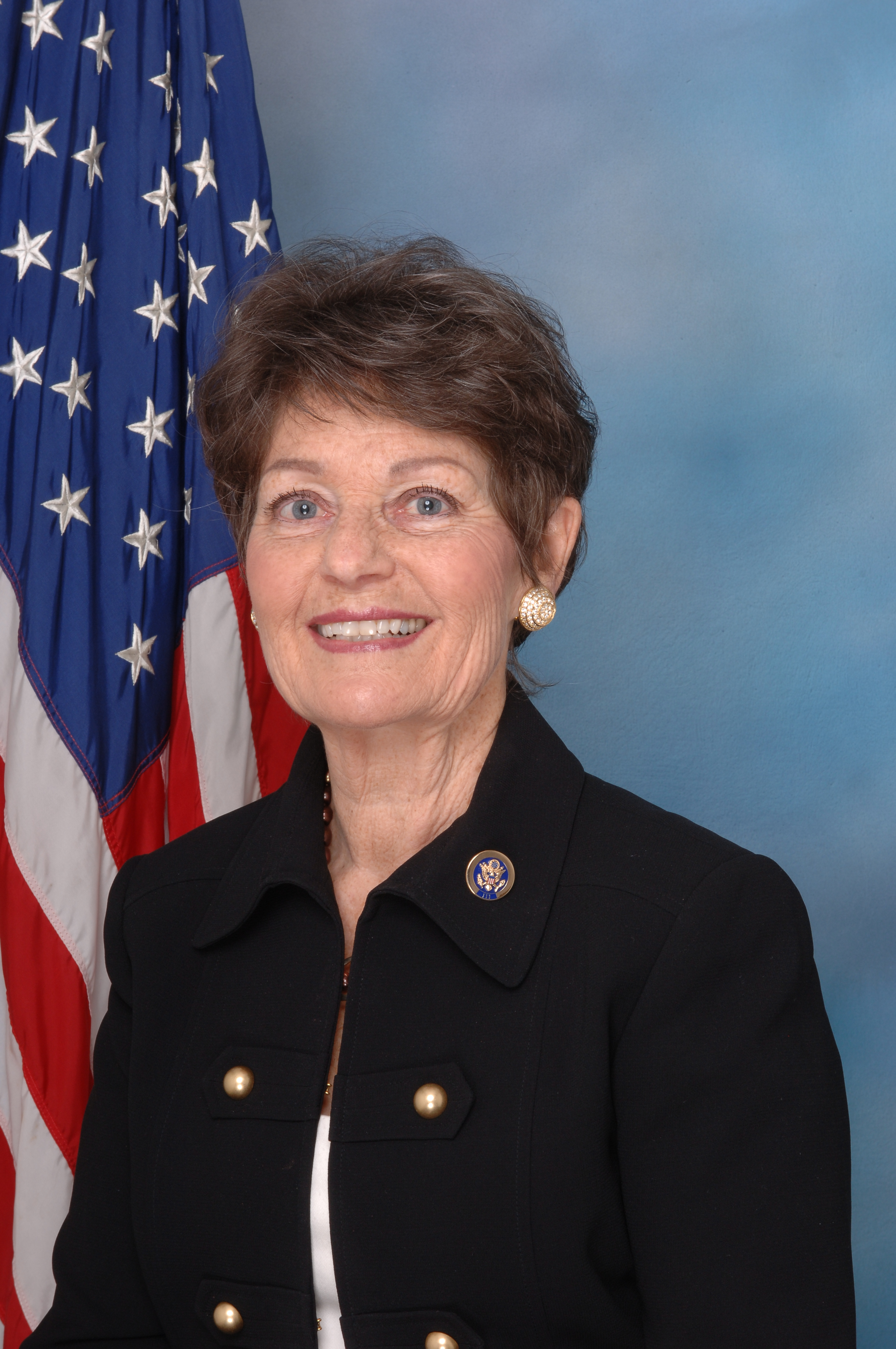 Official photo of Congresswoman Suzanne Kosmas (D-FL).